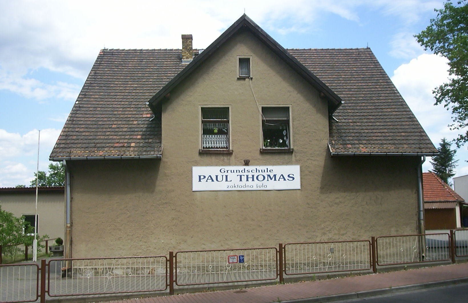 Primary School “Paul Thomas” in Trebendorf Hornjoserbsce: Zakładna šula „Paul Thomas“ w Trjebinje